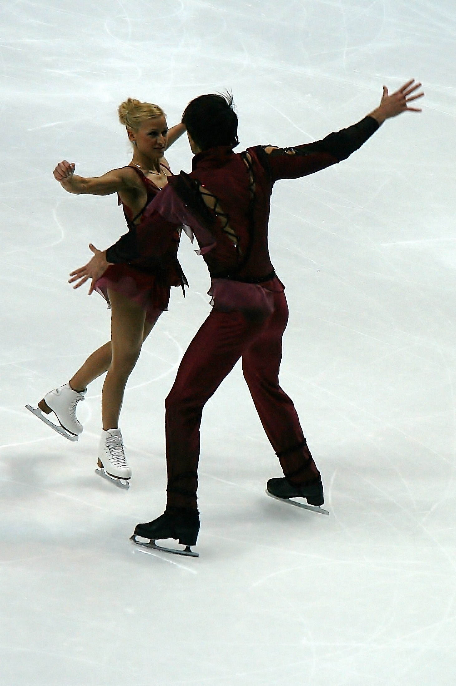 Tatiana Volosozhar and Maxim Trankov at the 2011 World Figure Skating Championships